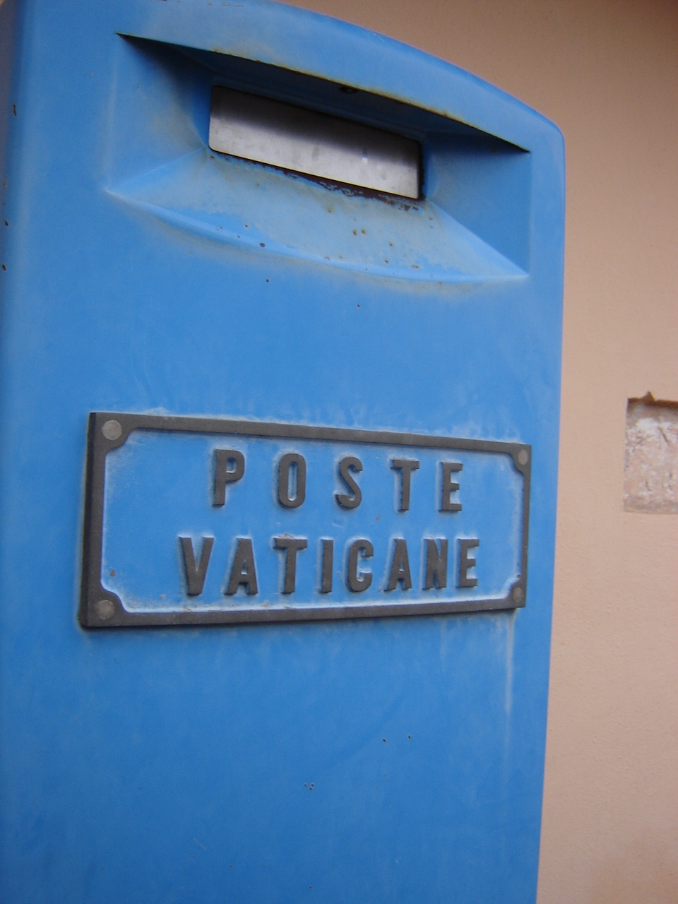 A blue Vatican mailbox.